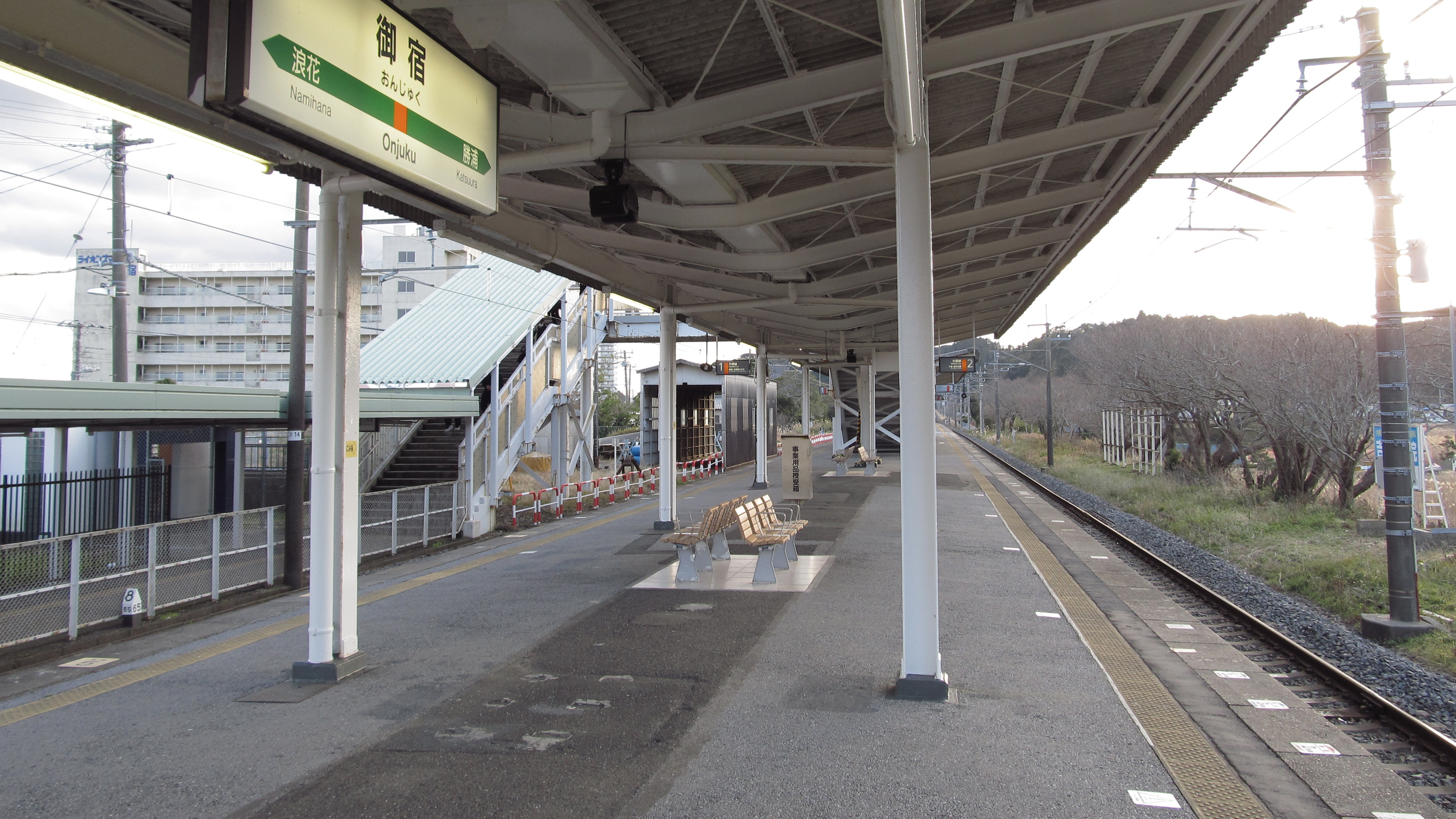 The platform at Onjuku Station on the Sotobō Line in Onjuku town, Chiba prefecture, Japan